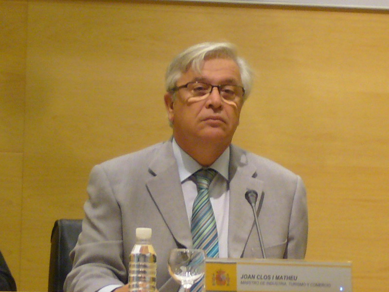 Joan Clos i Matheu, former Mayor of Barcelona (1997-2006) and Industry Minister of Spain